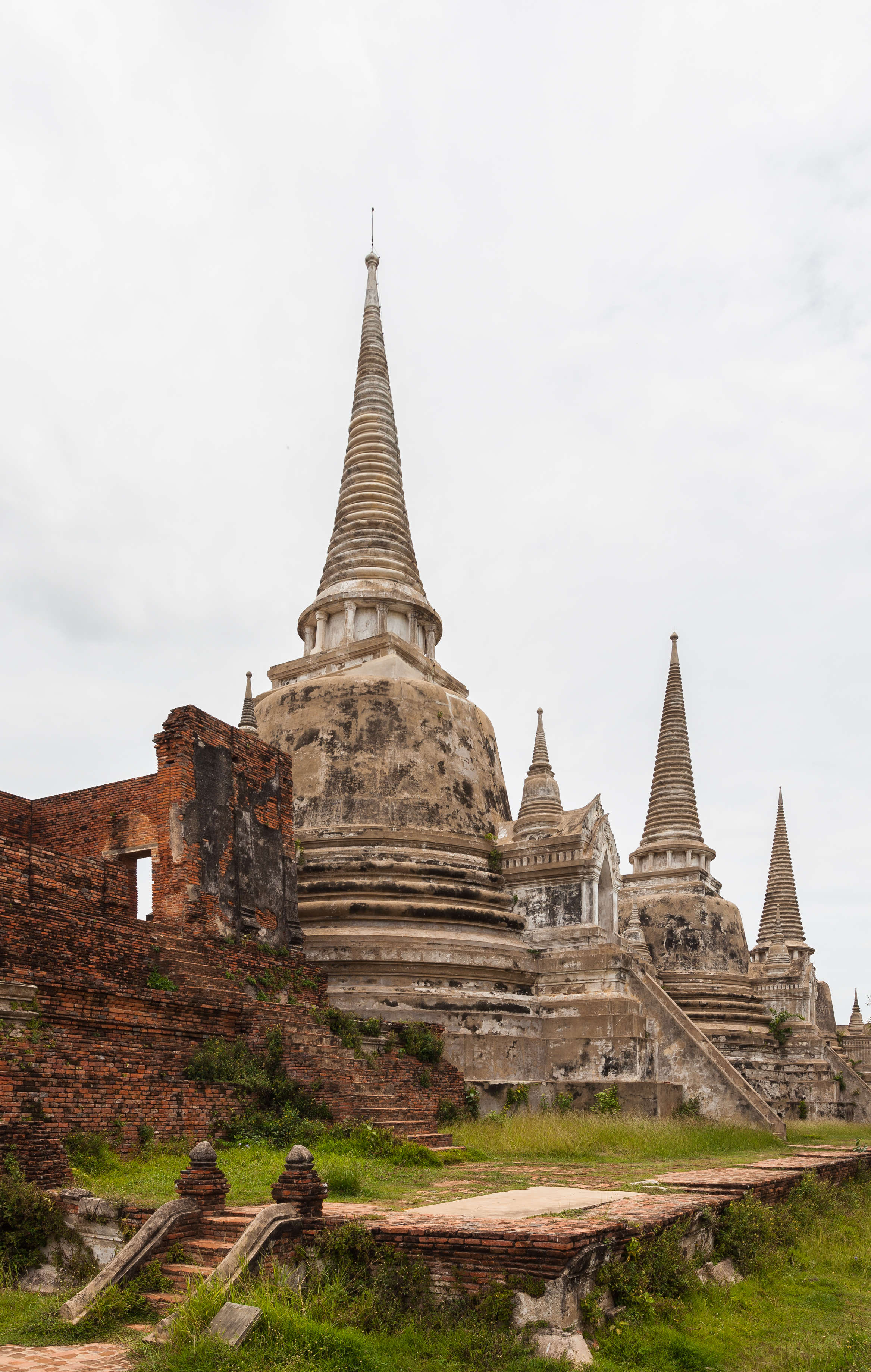 Phra Si Sanphet temple, Ayutthaya, Thailand